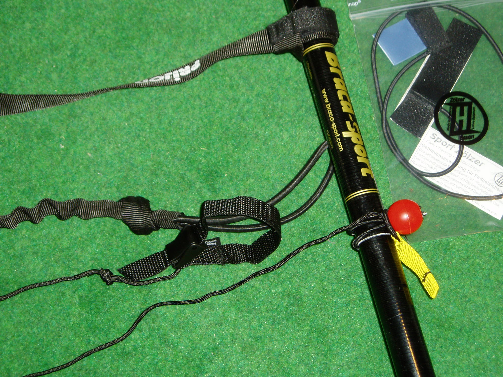 Three paddle leash, two attached to a paddle.